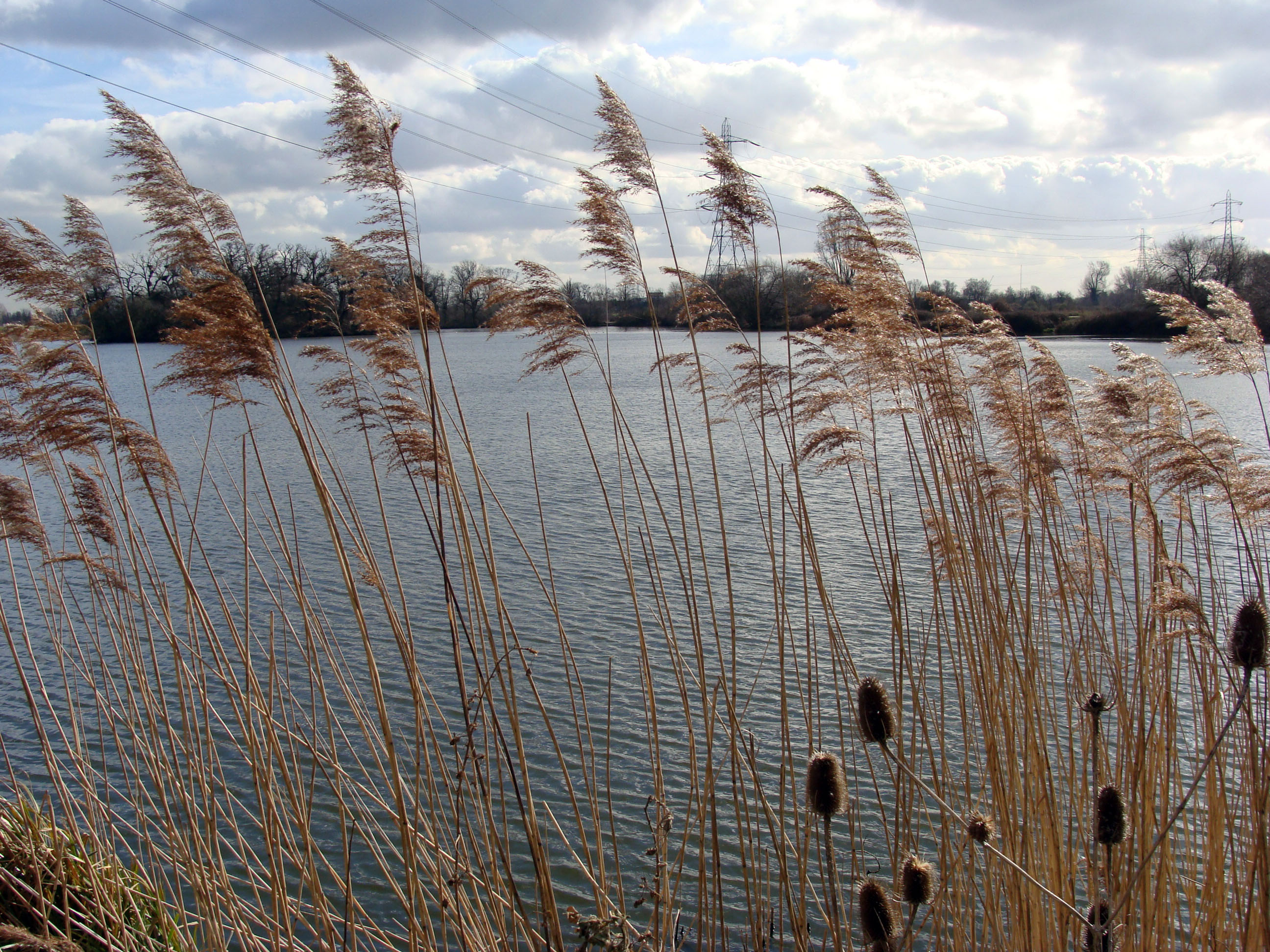 Reedbed at Walthamstow Reservoirs London